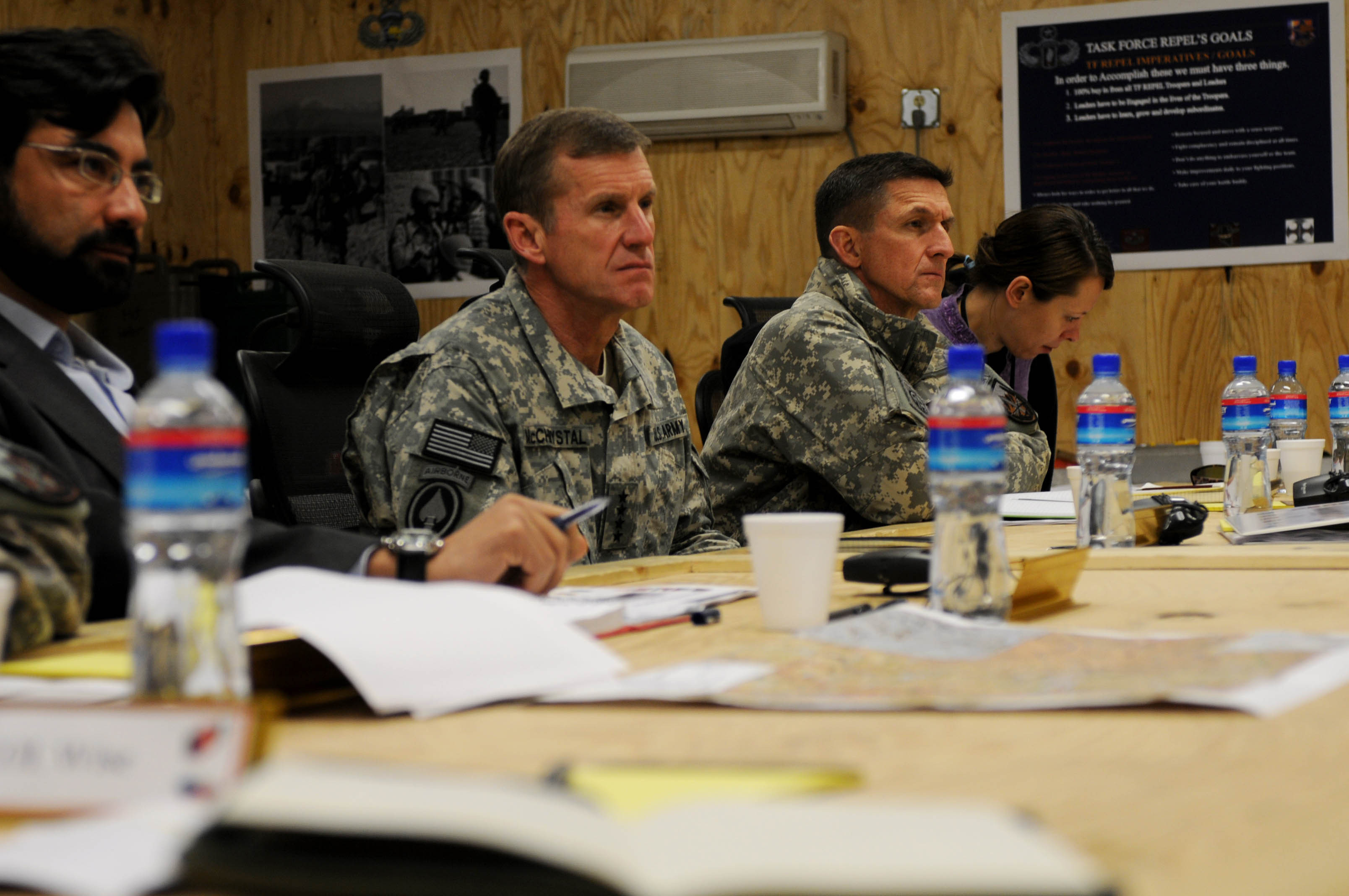 U.S. Army Gen. Stanley McChrystal, commander of International Security Assistance Force, with U.S. Army Maj. Gen. Michael T. Flynn, chief of intelligence for ISAF, listen to a briefing by 173rd Airborne Brigade Combat Team commander, U.S. Army Col. James Johnson, during a visit to Forward Operating Base Shank, March 10. McChrystal also spoke during the meeting, discussing current operations and the future of the counter-insurgency fight in Afghanistan. "We're here not to fight the war, but we're here to win," said McChrystal. "And we win through the people."